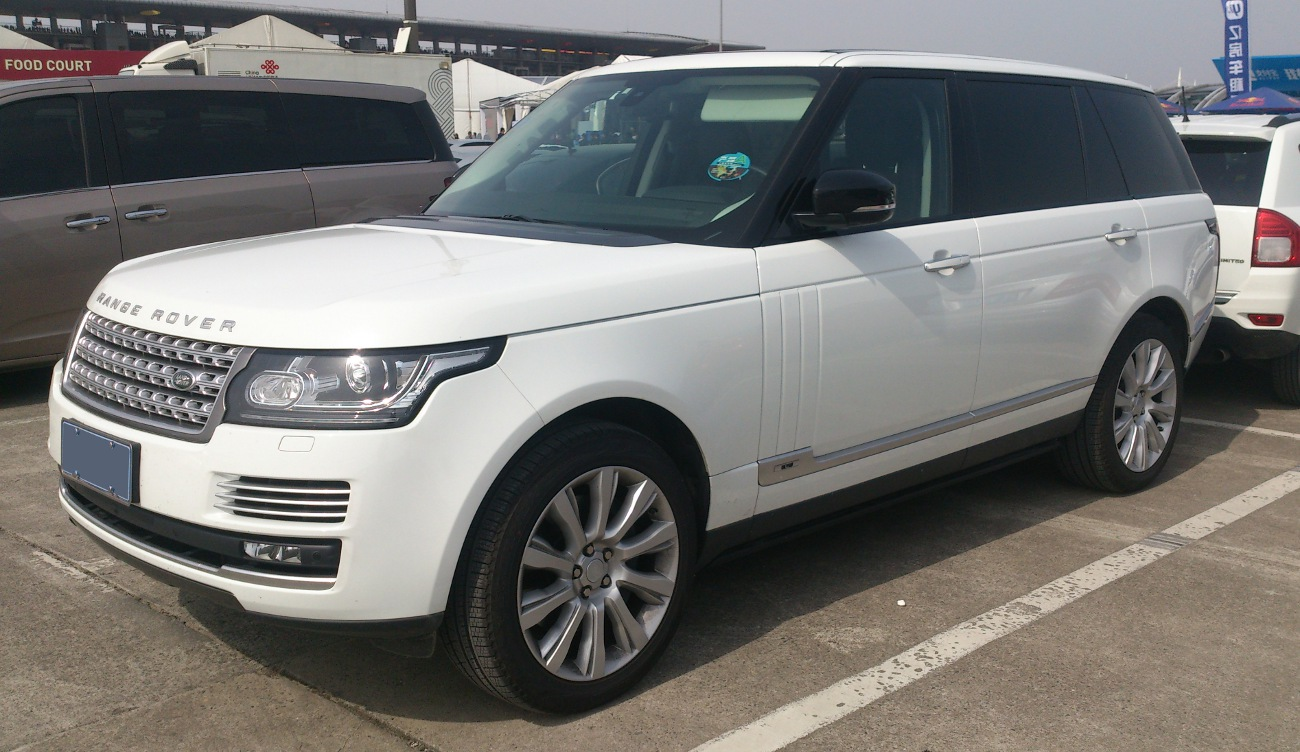 Land Rover Range Rover L405 L photographed in Anting, Shanghai municipality, China.